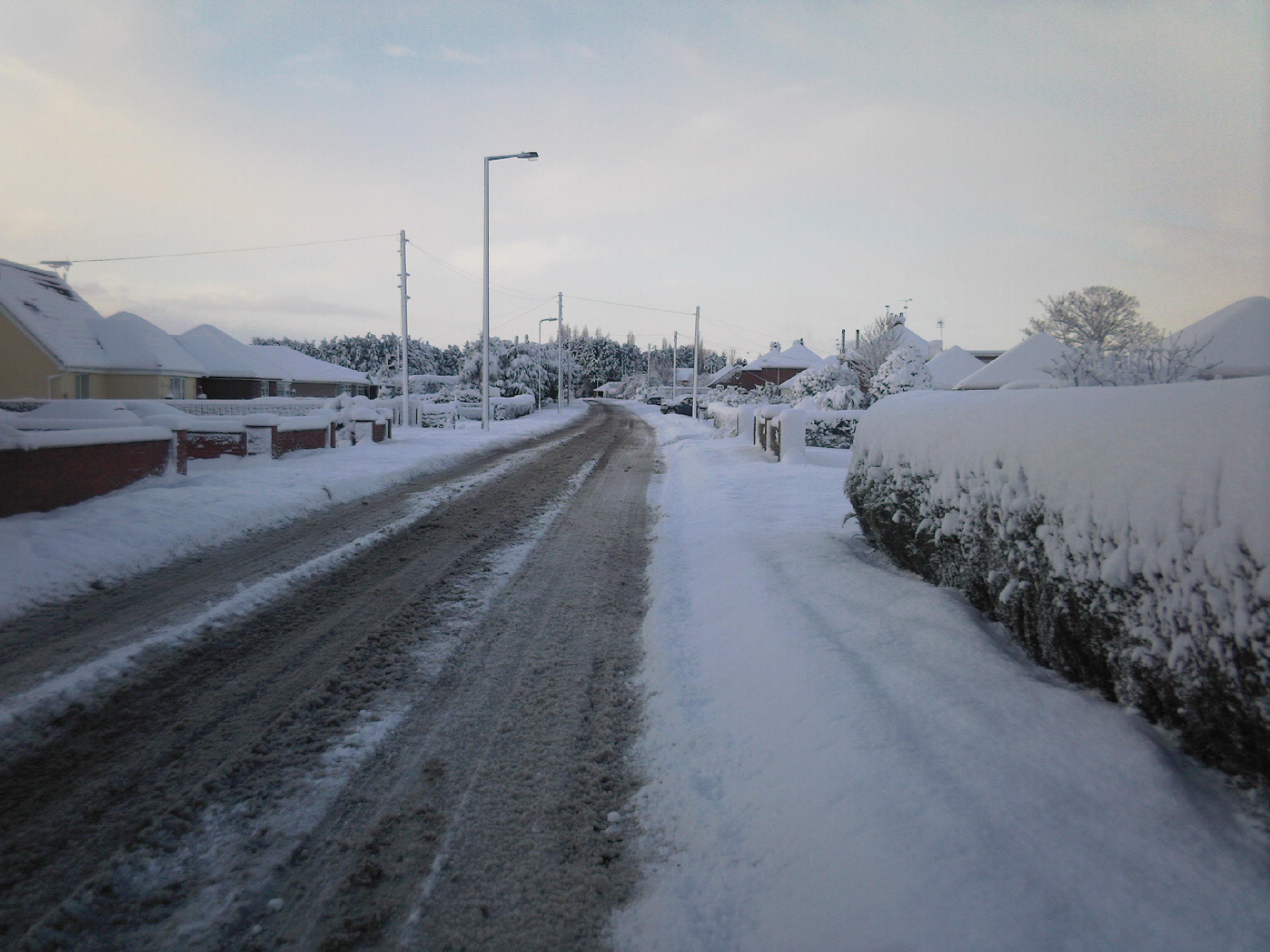 Photo of Jerusalem Road, Skellingthorpe during the heavy snow of 2010.